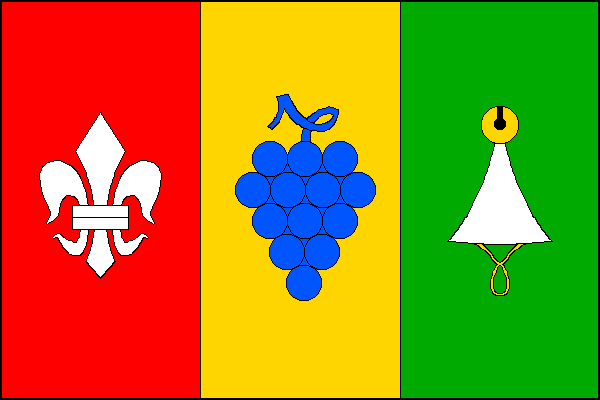 Municipal flag of Němčičky village, Břeclav District, Czech Republic.